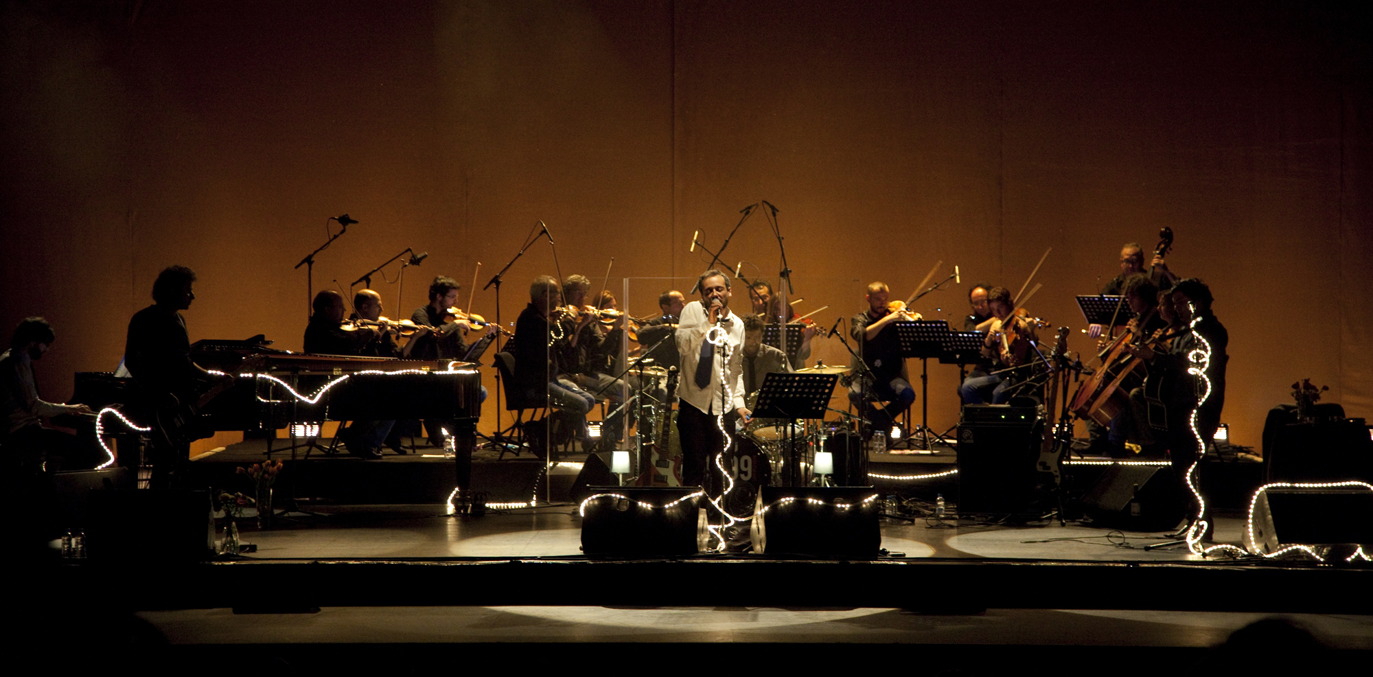 Love Of Lesbian + ONCA / Teatre Auditori Sant Cugat